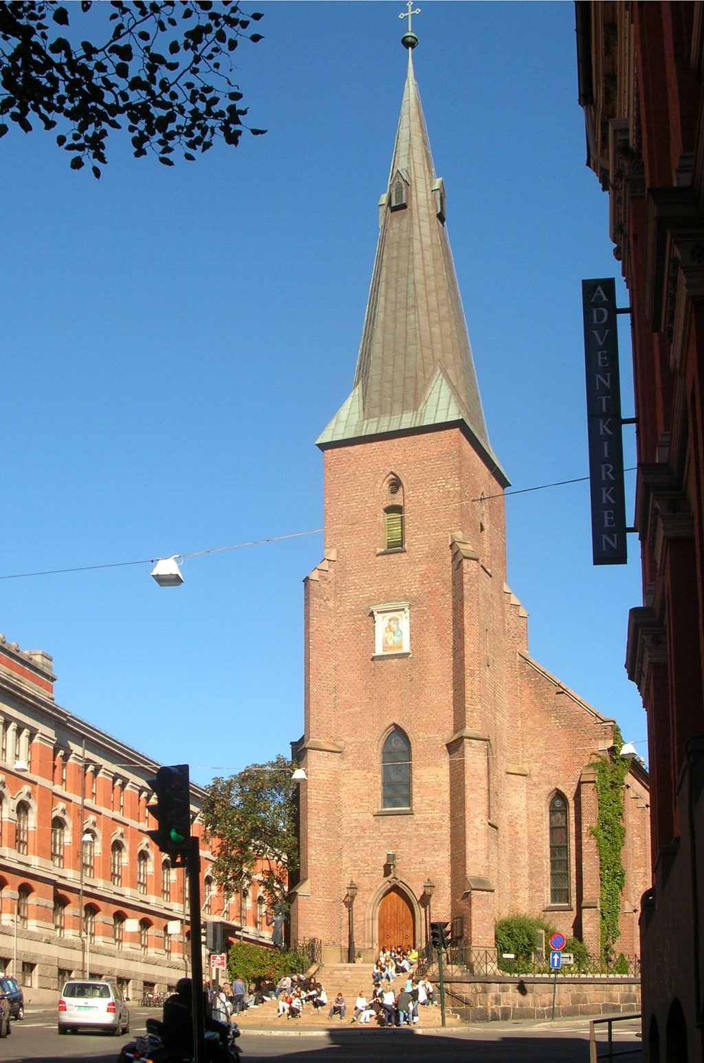 St. Olaf's cathedral in Oslo (Norway)